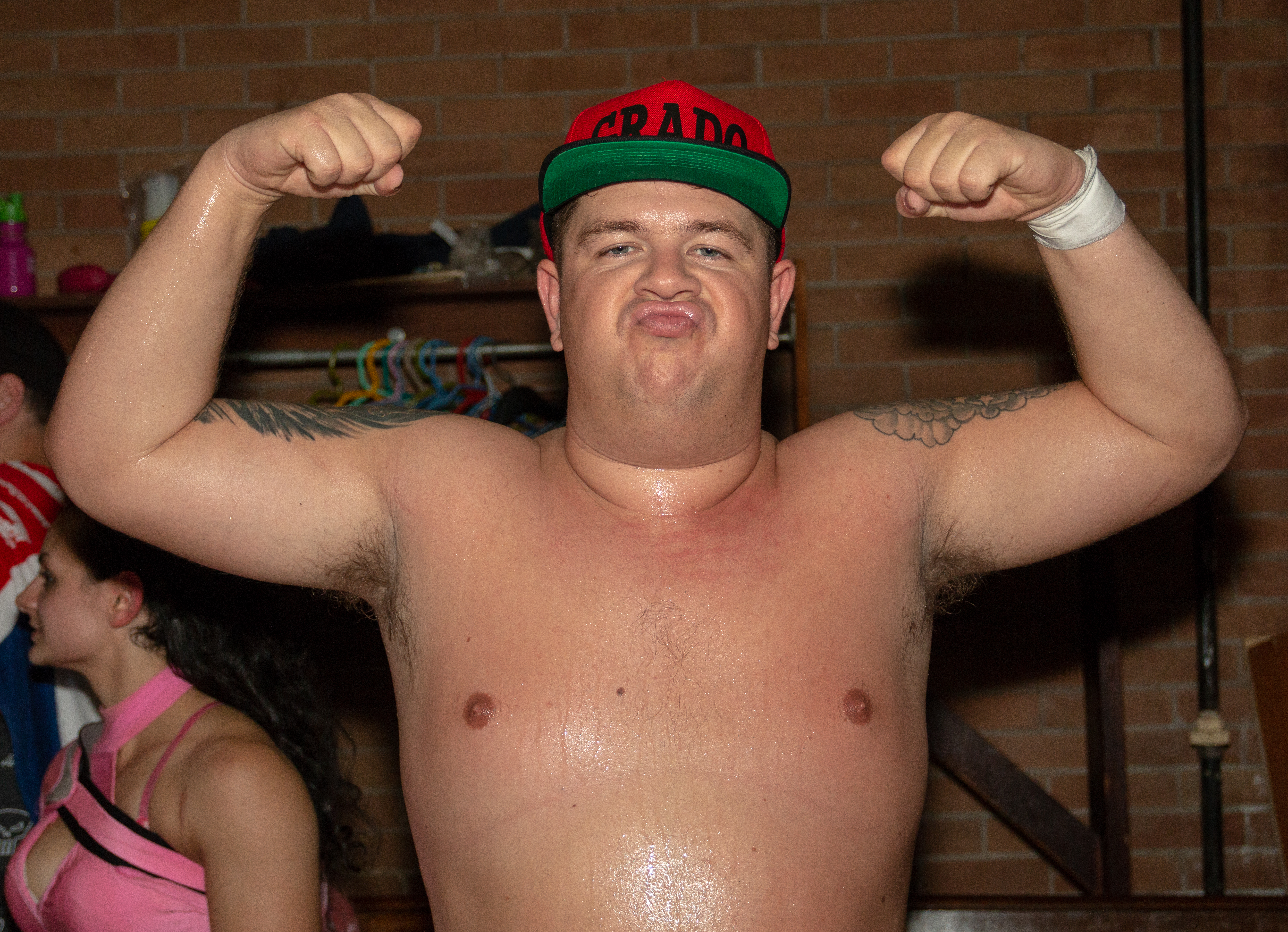 Independent wrestler Grado posing during intermission at a Greektown Wrestling show in Toronto, ON